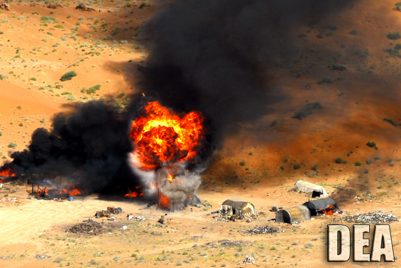 Burning hashish seized in Operation Albatross, a joint operation of Afghan officials, NATO and the DEA.